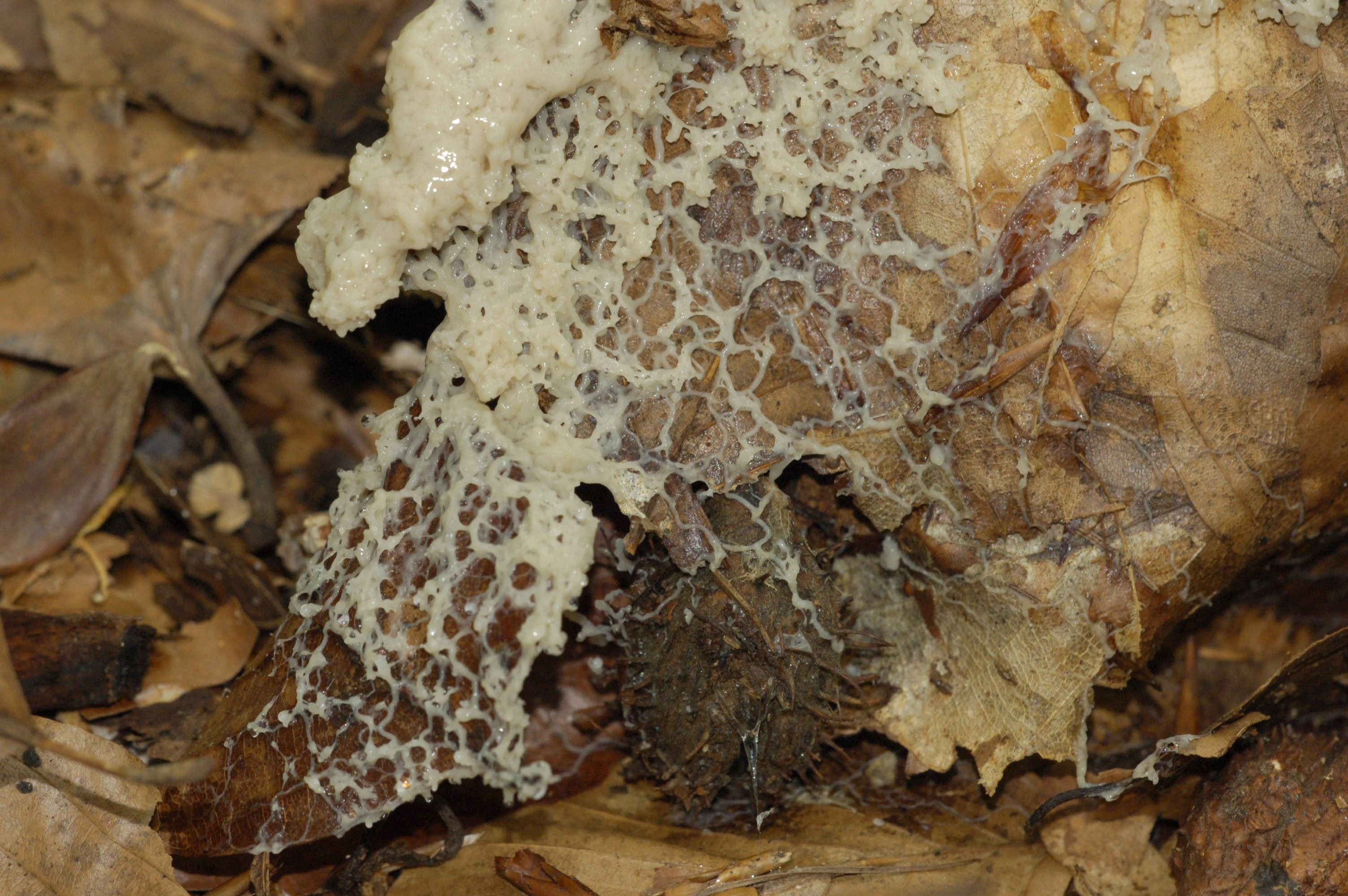 Unidentified 'slime mould', Myxogastria